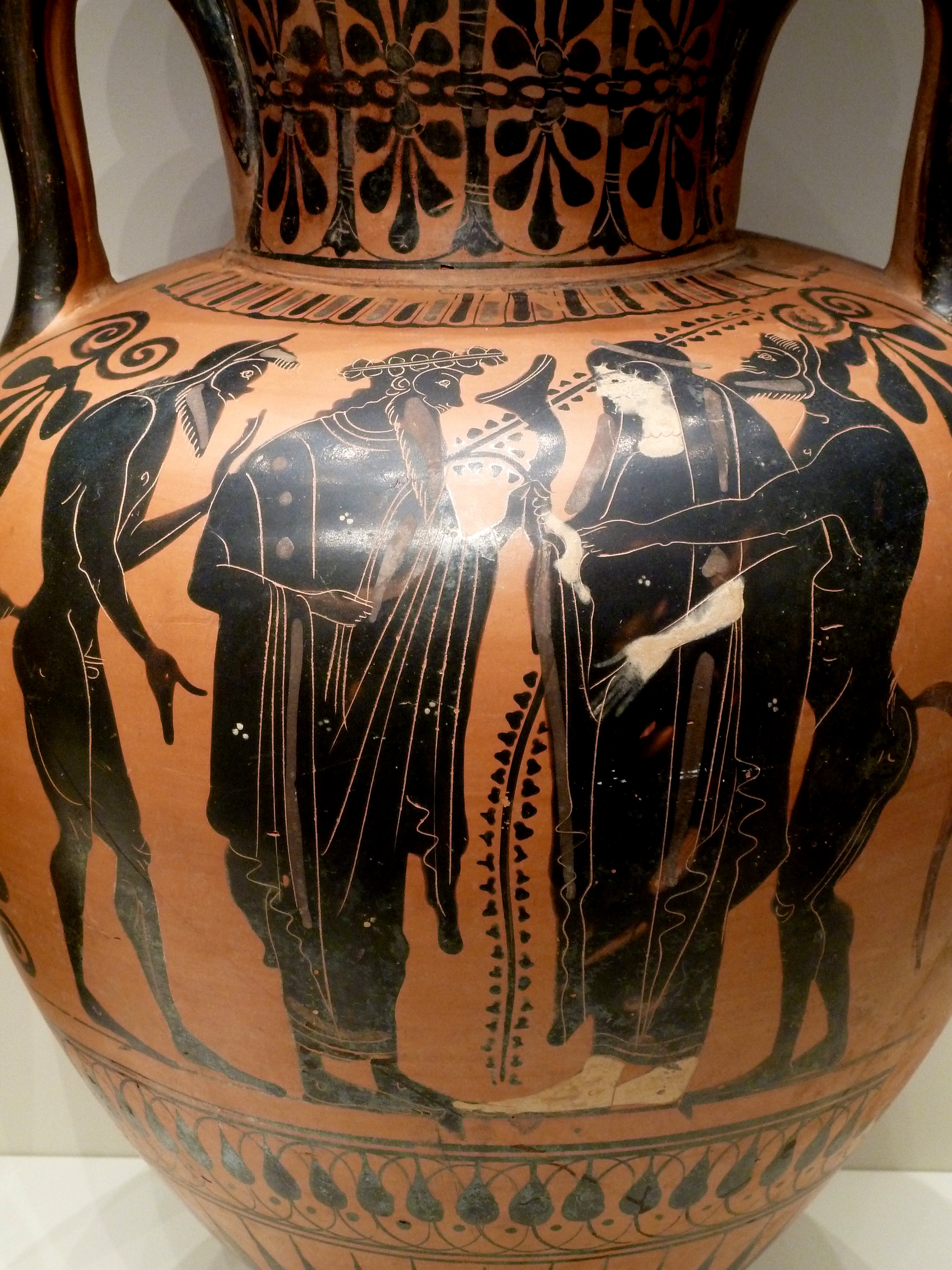 Athenian amphora. Side B: Dionysos standing between two satyrs and his wife Ariadne. Side A: Herakles and Cerberus, accompanied by Athena and Hermes. On the neck: palmette-lotus chain. On the shoulder: enclosed tongues. Above the foot: forty-one rays and a glaze band.